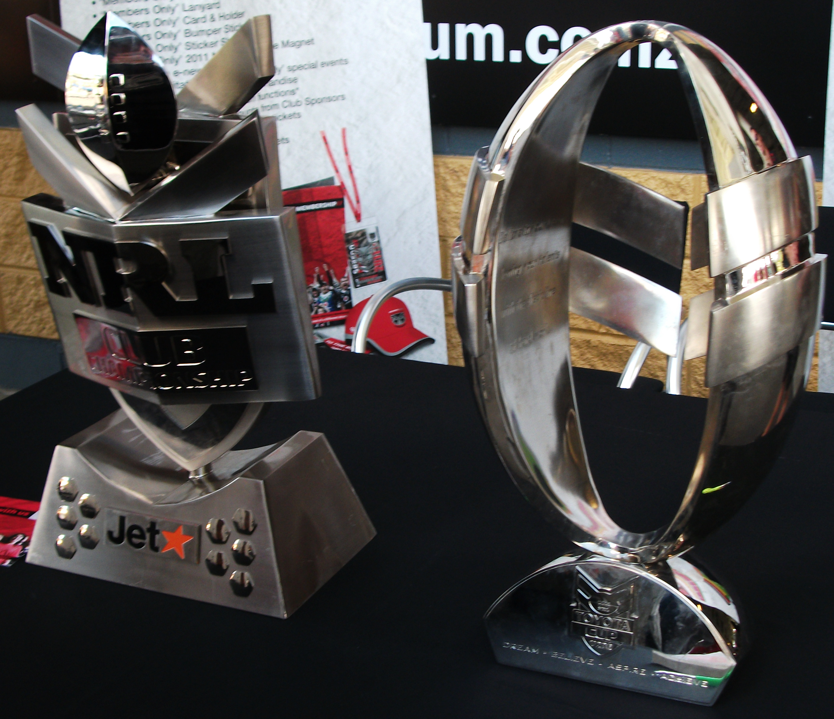 The NRL Club Championship and the Toyota Cup, both won by the New Zealand Warriors in 2010. Taken at North Harbour Stadium on 26 February 2011.